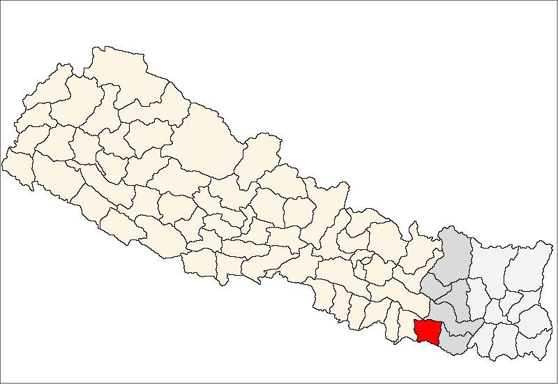 FrenchCarte de localisation dudistrict de Siraha(wp-FR),au Népal (wp-FR).EnglishLocation map ofSiraha District(wp-EN),in Nepal (wp-EN).